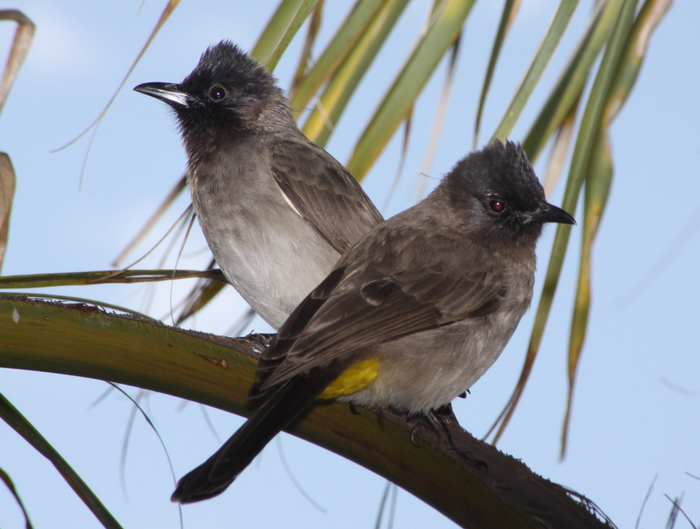 Pair of blackeyed bulbuls